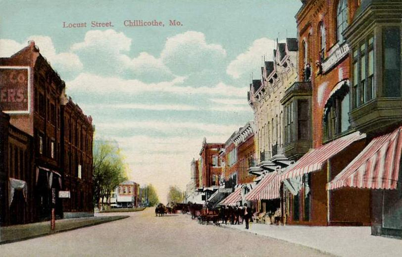 Locust Street, Chillicothe, Missouri; from a c. 1908 postcard.